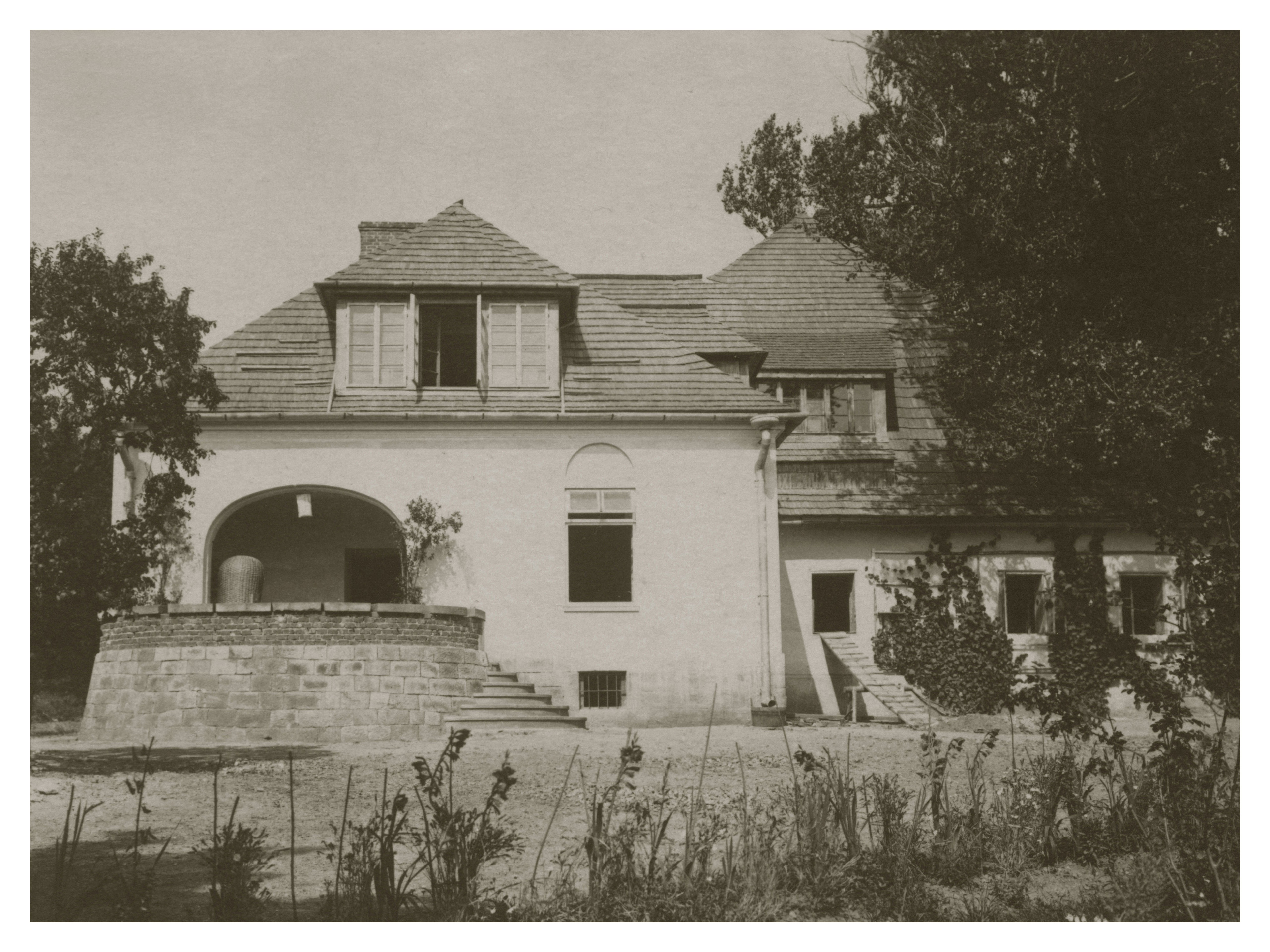 Klimkówka manor, east side of the house